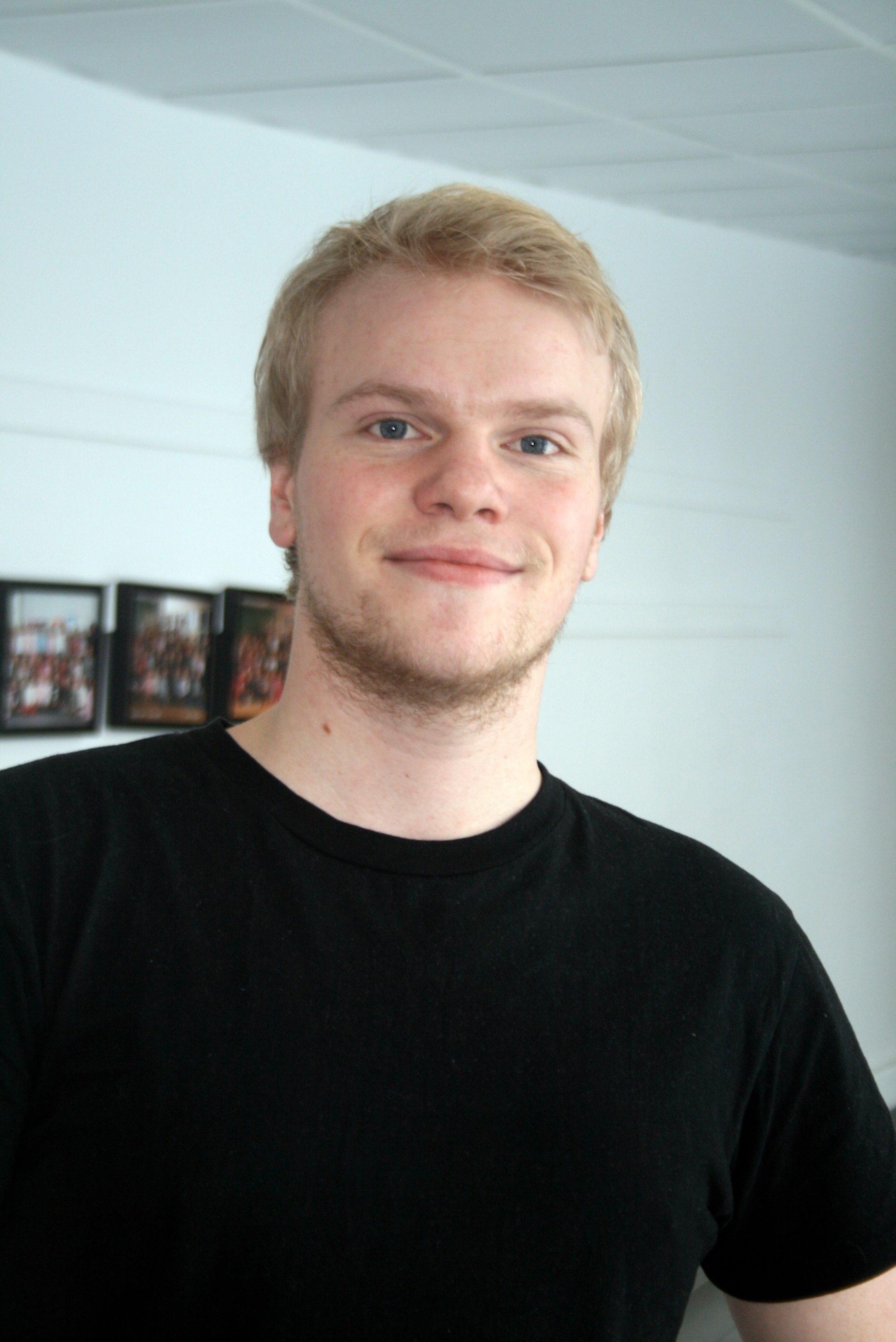 Adrian Farner Rogne, president of Juvente Norway